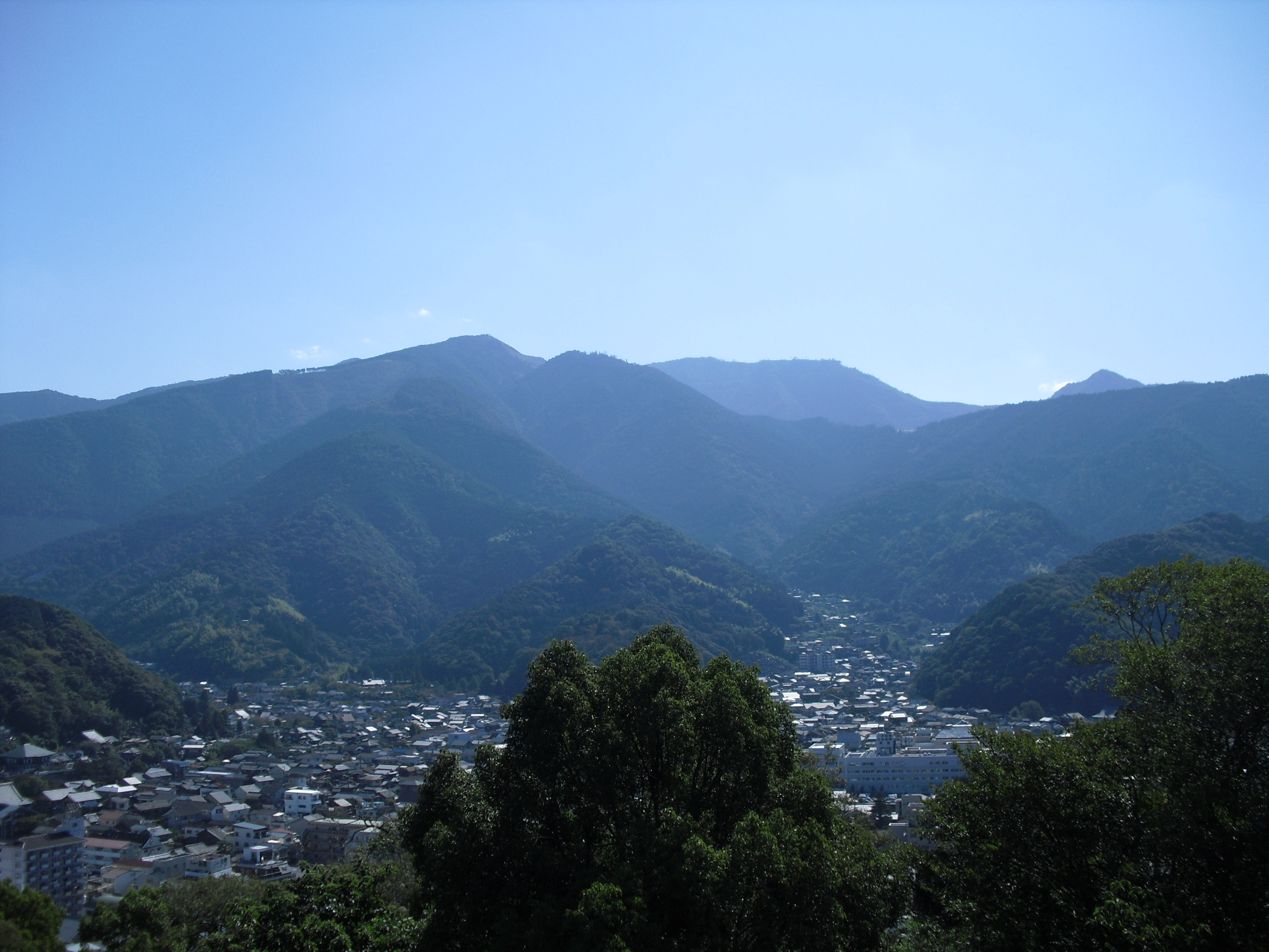 Mount Keyama and Mount Onigajo as seen from the northwest. Shot at the site of Uwajima Castle.